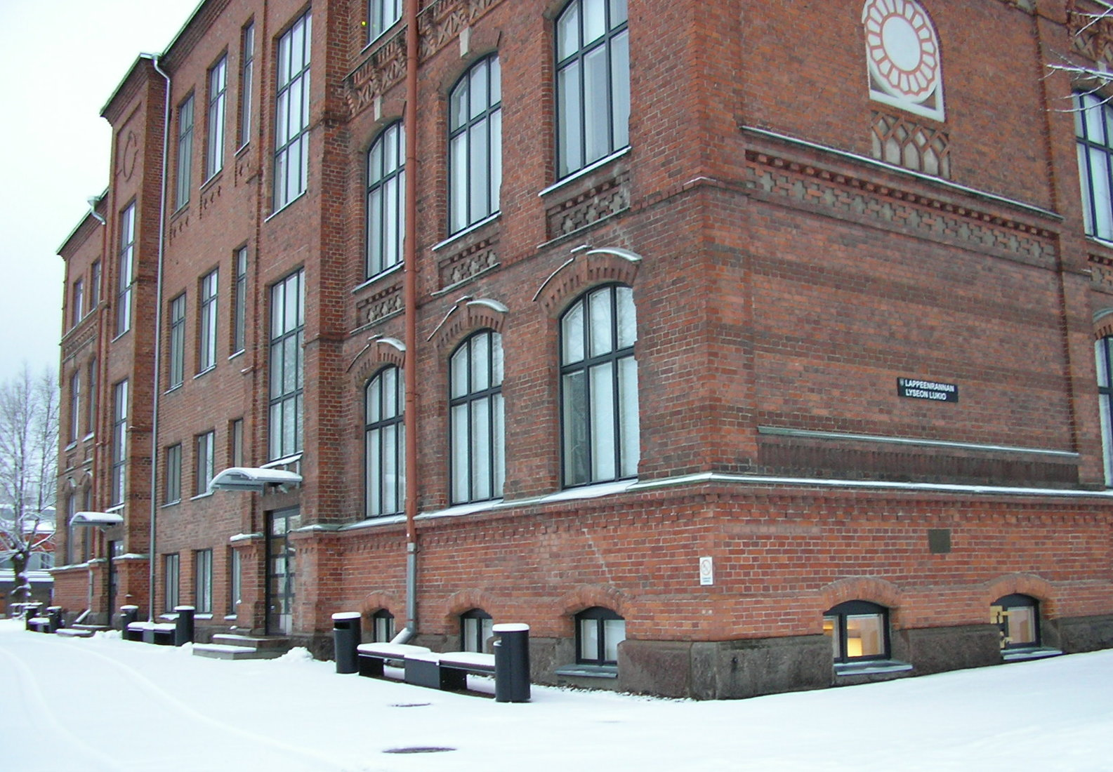 Lappeenrannan Lyseon lukio secondary school. Lönnrotinkatu, Lappeenranta.